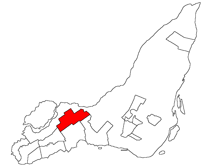 Map of Dollard-Des Ormeaux on the Island of Montreal